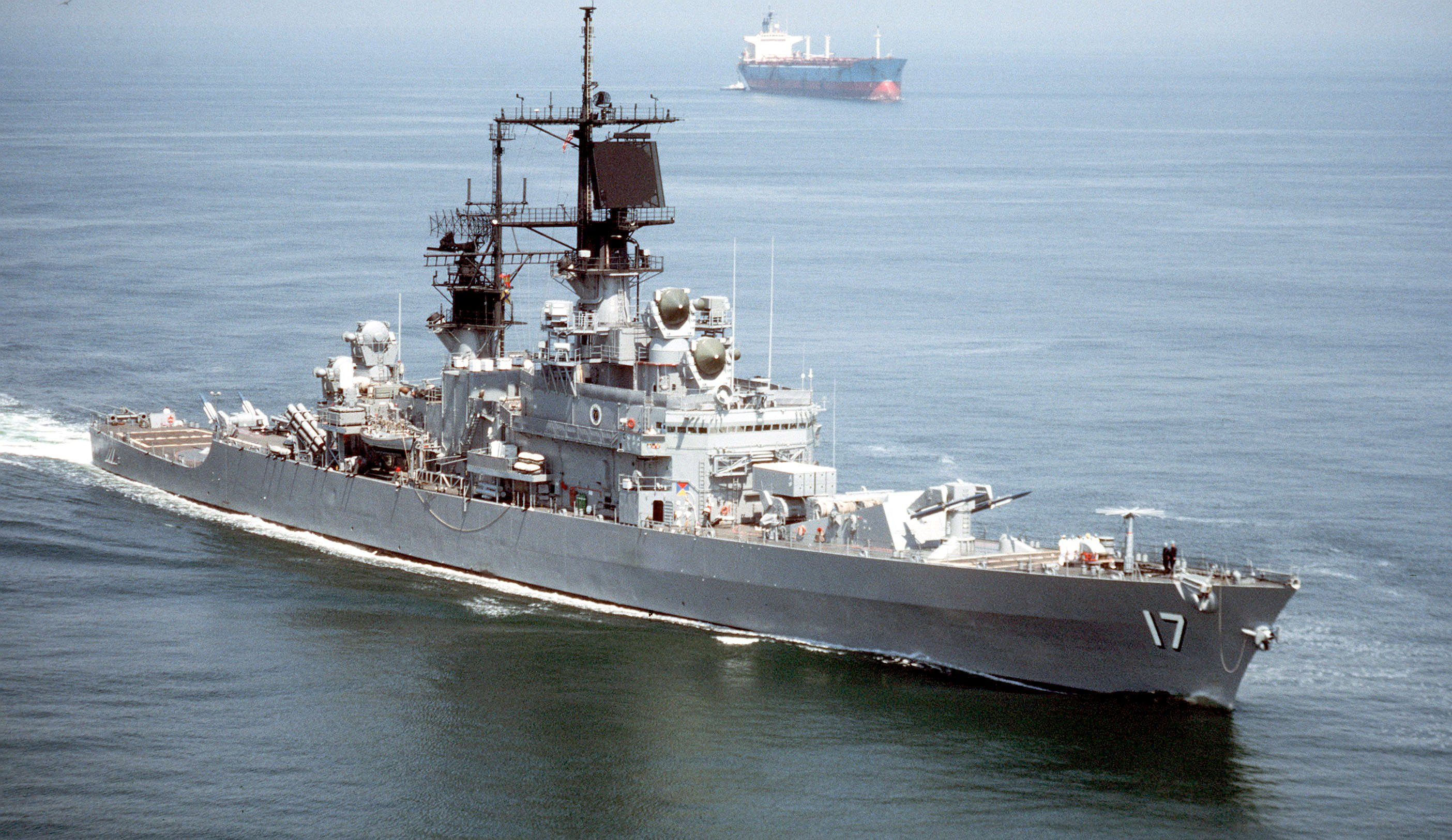 The U.S. Navy guided missile cruiser USS Harry E. Yarnell (CG-17) underway on 1 May 1990.